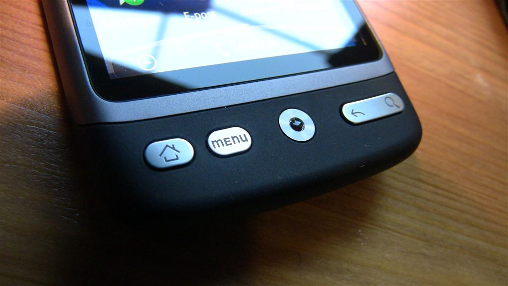 HTC Desire - closeup of optic navigation "button"